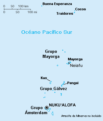 Tonga map from CIA World Factbook